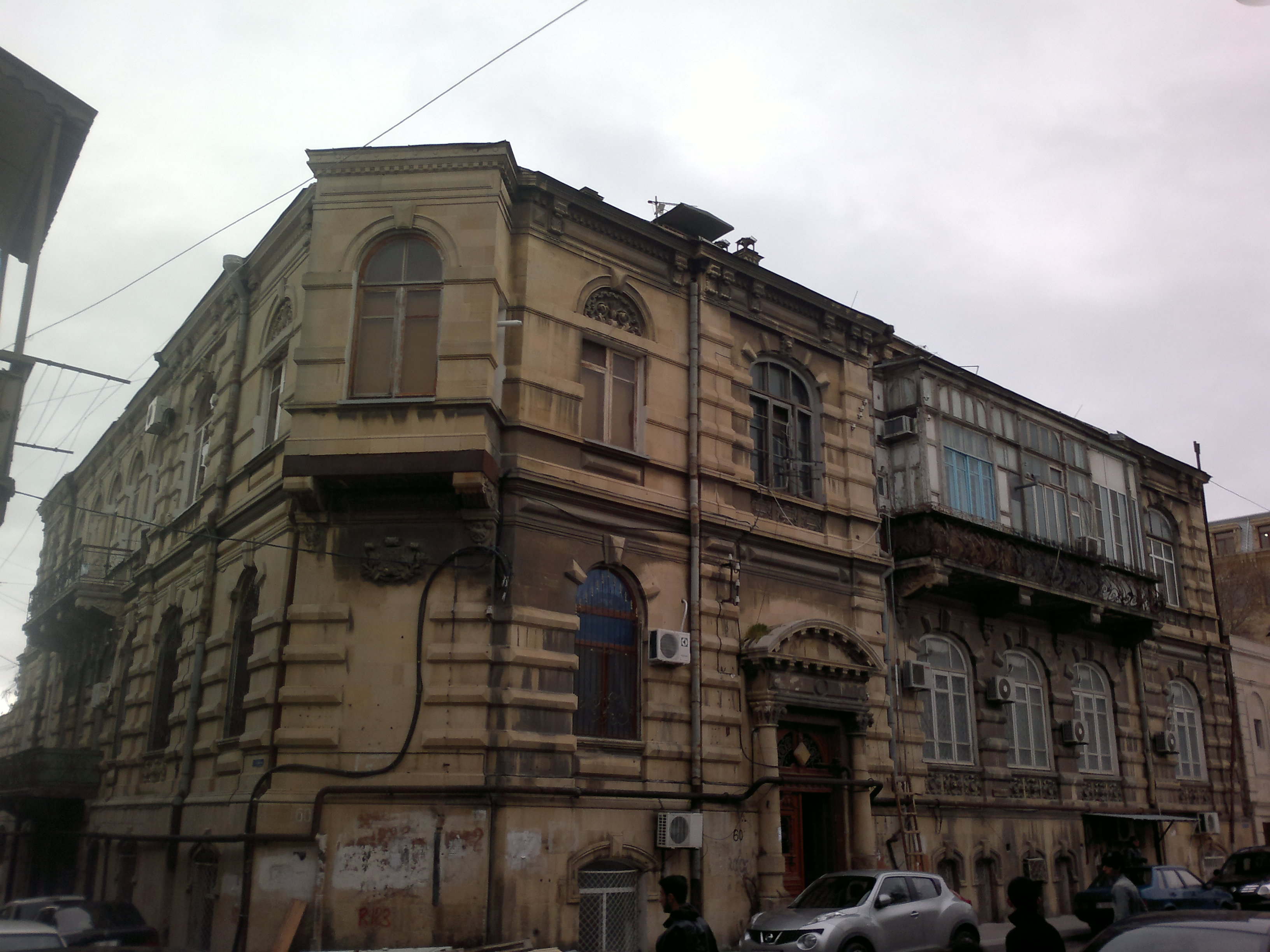 Building on Rza Quliyev Street 4